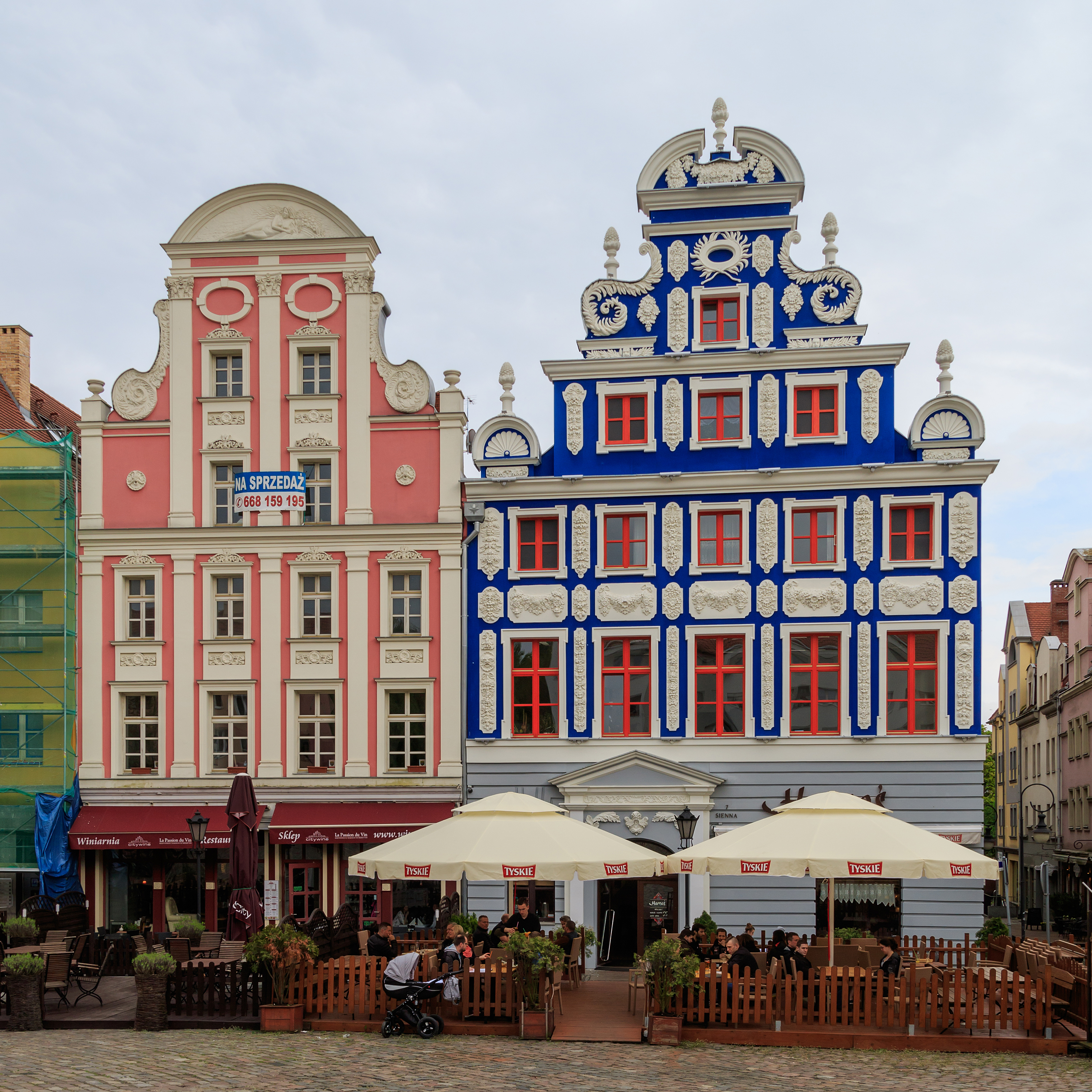 Rynek Sienny (Hay Market Square) in Szczecin (Poland)